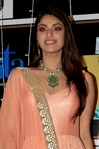 Anushka Ranjan graces the 18th ITA Awards 2018